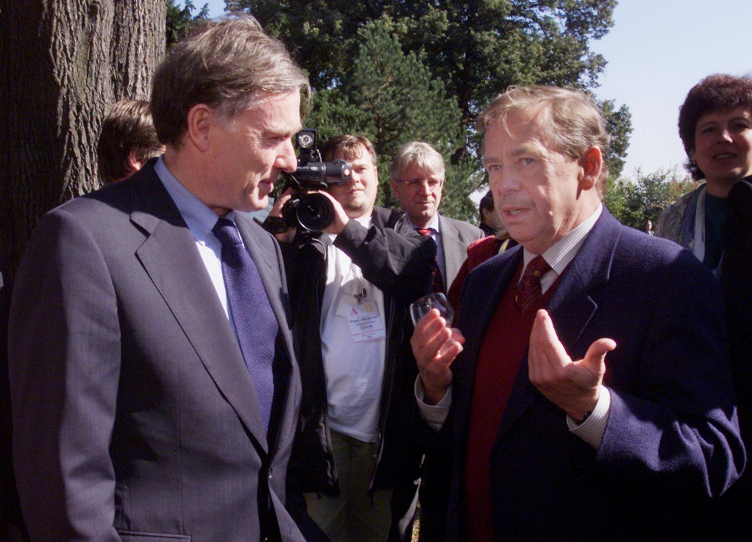 Czech President Vaclav Havel talks to IMF Managing Director Horst Köhler in the gardens at Prague Castle.